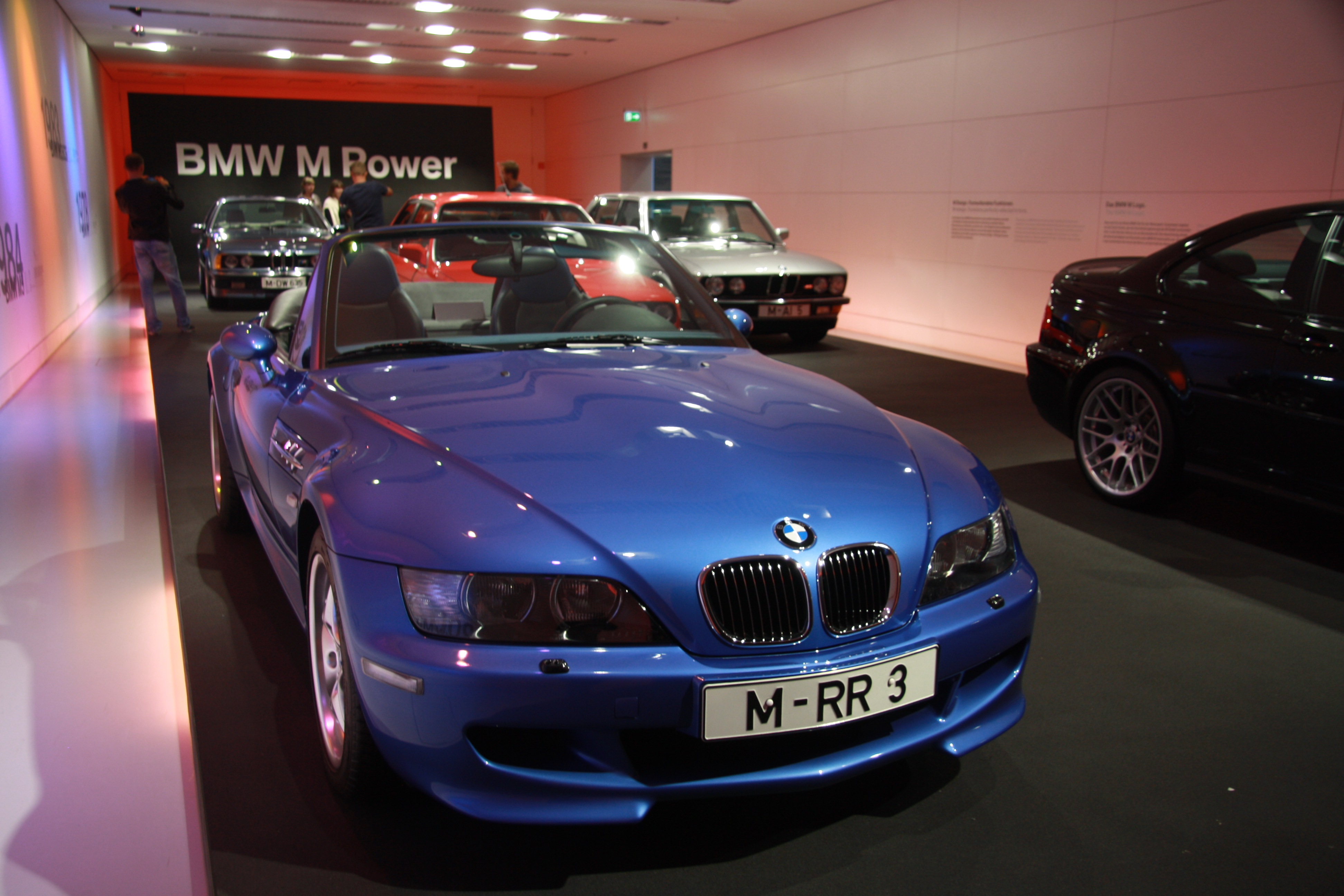 BMW M roadster in BMW-Museum in Munich, Bayern.